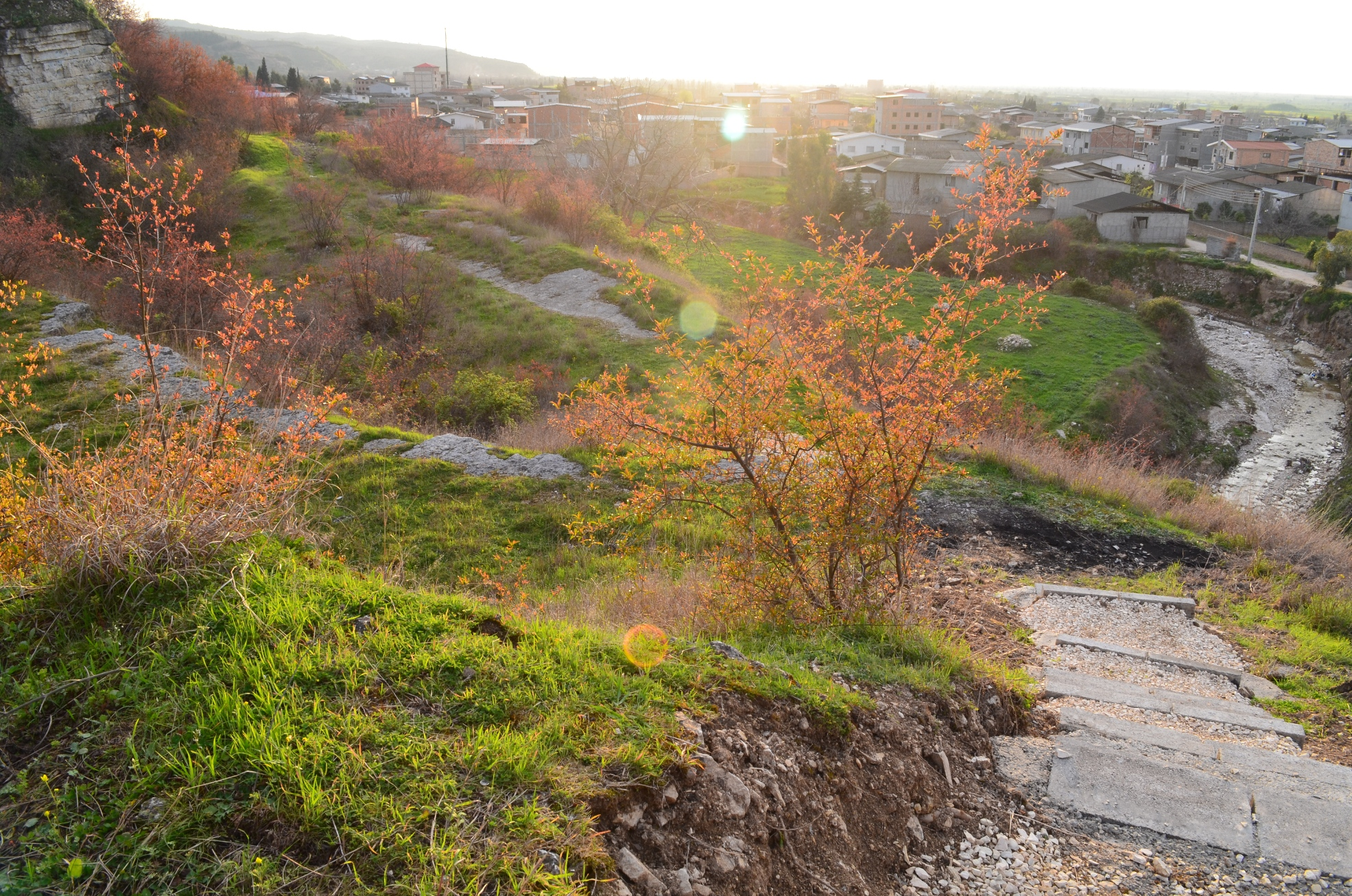 A view to the west, from the outside of the Hotu cave